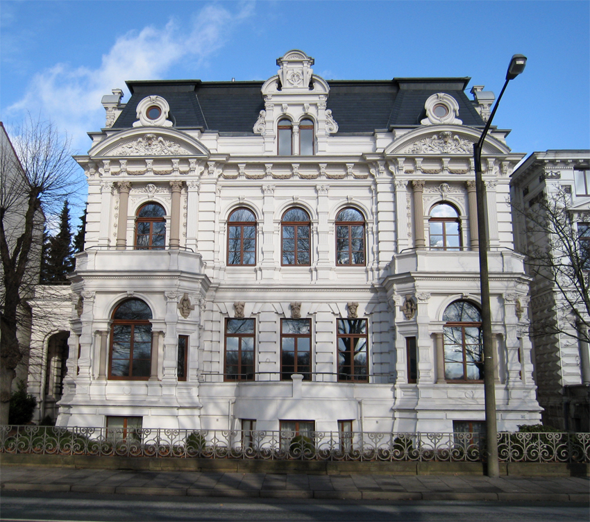 The Villa Frerichs at the Osterdeich No. 27 in Bremen, Germany. Built 1882–84 by Johann Georg Poppe for the mercahnt Adolf Frerichs.